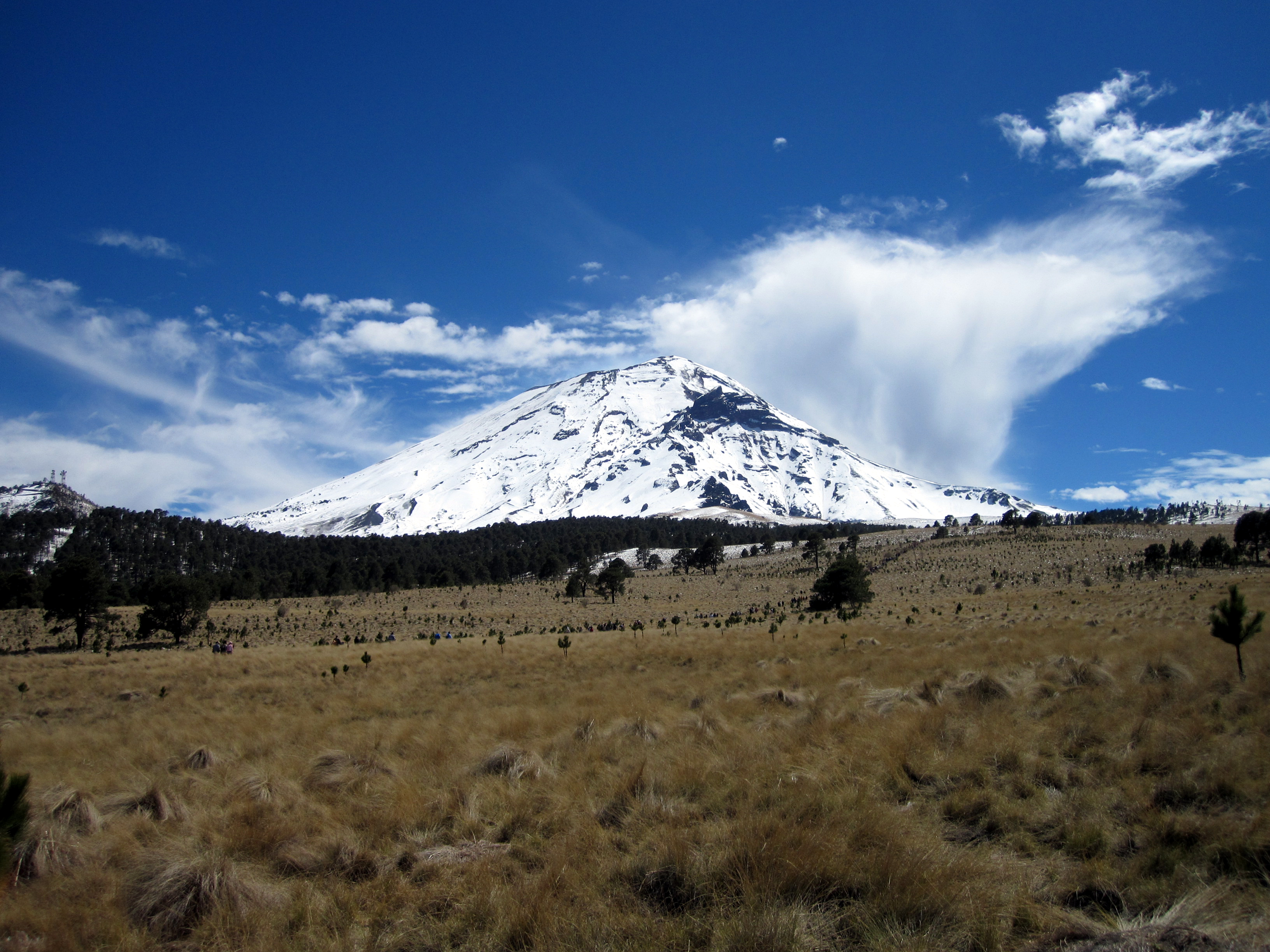 Popocatépetl as seen from Paso de Cortés